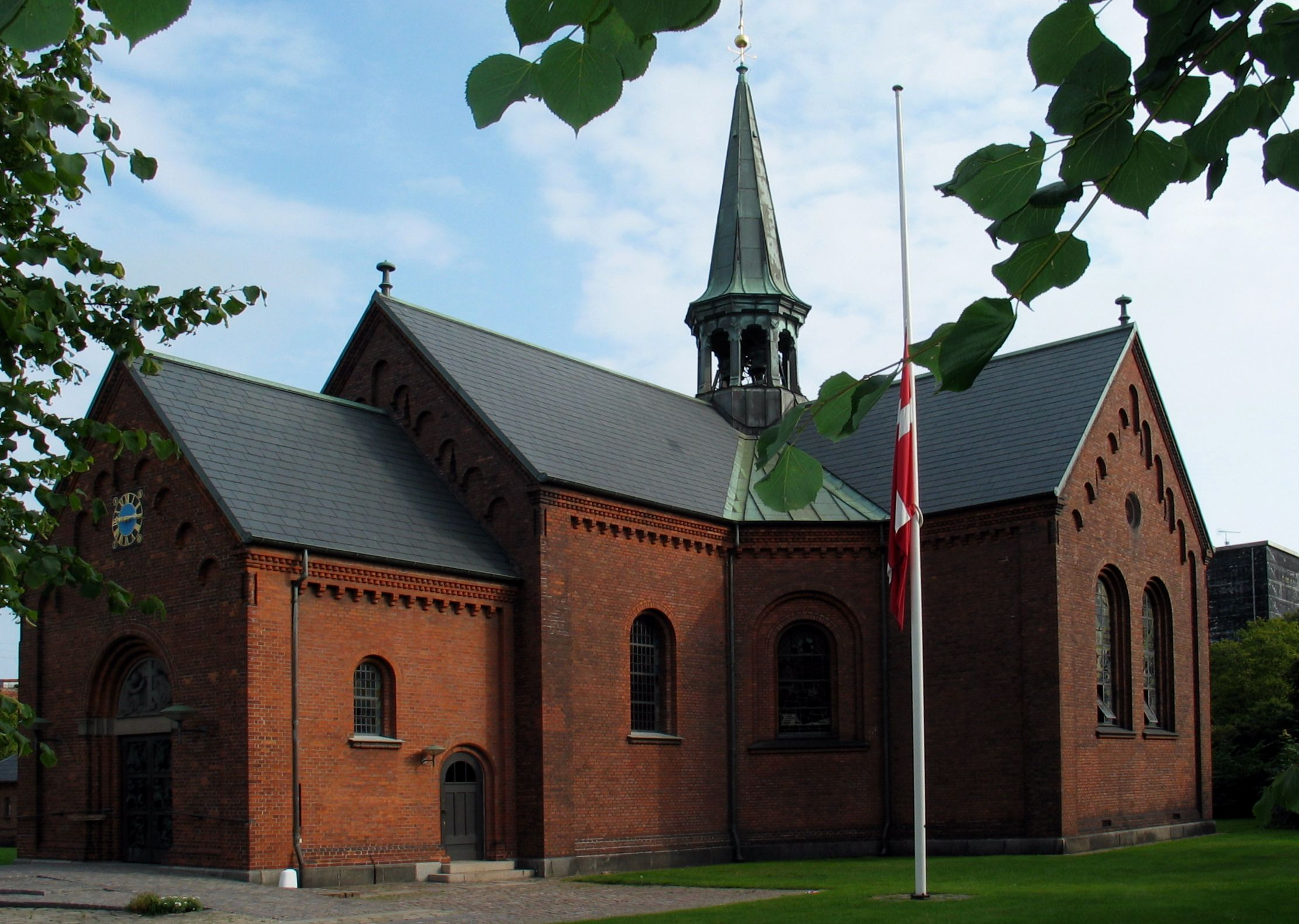 Sundby Kirke. 2005 Seen from south-west